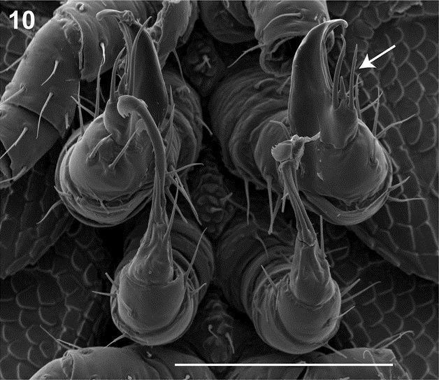 Ventral in situ view of gonopods (♂). Arrow, anterior gonopod thick, more robust than posterior gonopod. Scale bar 0.1 mm